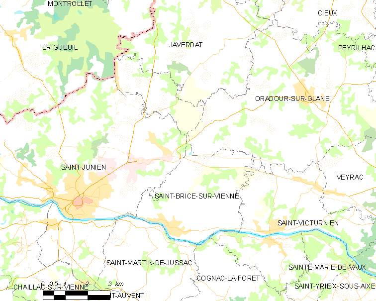 Map of French municipality Saint-Brice-sur-Vienne